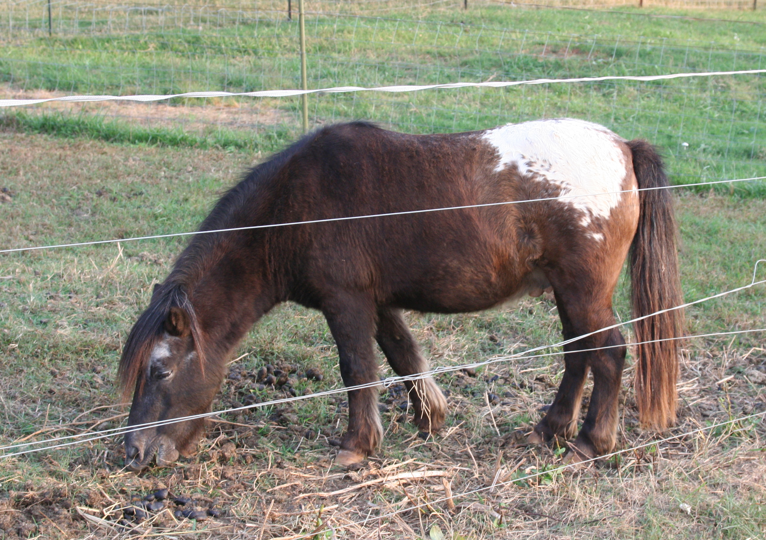 A small pony with the snowcap pattern of leopard complex